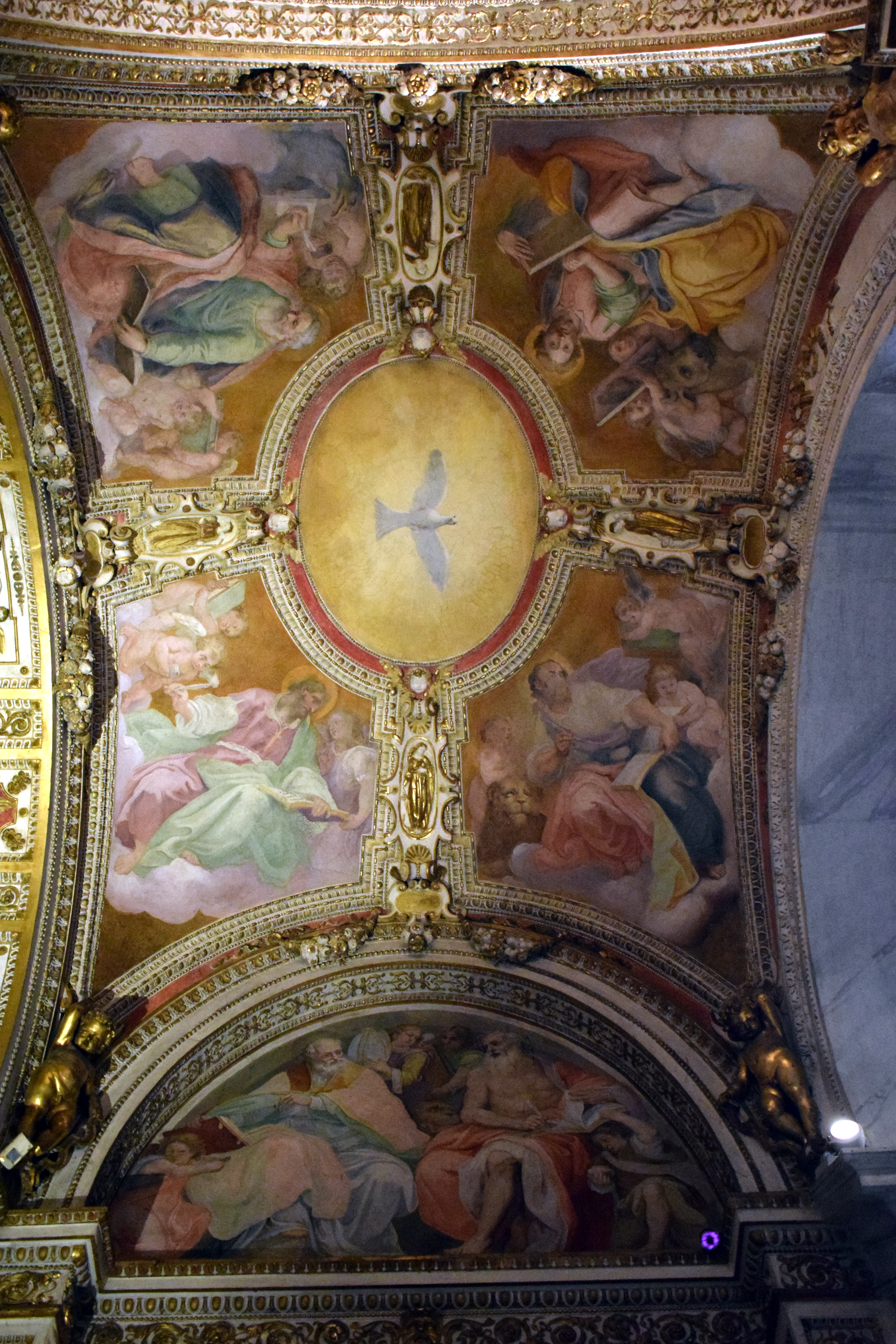 The frescos of Giovanni Battista Ricci on the vault of the anteroom in the Cerasi Chapel: the Holy Spirit and the Evangelists; c. 1601.